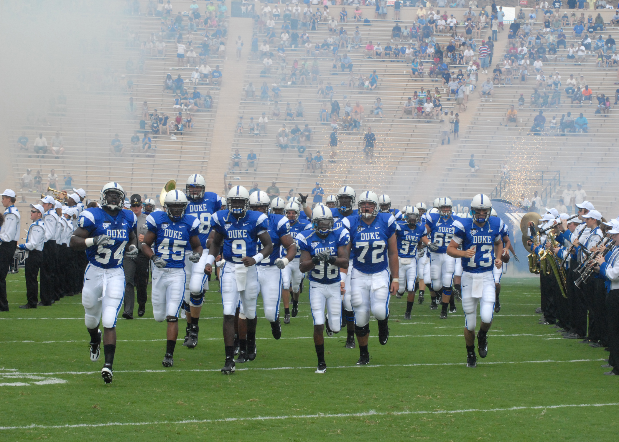 The Duke Blue Devils take the field Sept 1 during their season opener at Wallace Wade Stadium, Durham, N.C. The Duke Athletic Department paid tribute to all branches of the military by offering tickets to active duty, guard, reserve and retired service members.